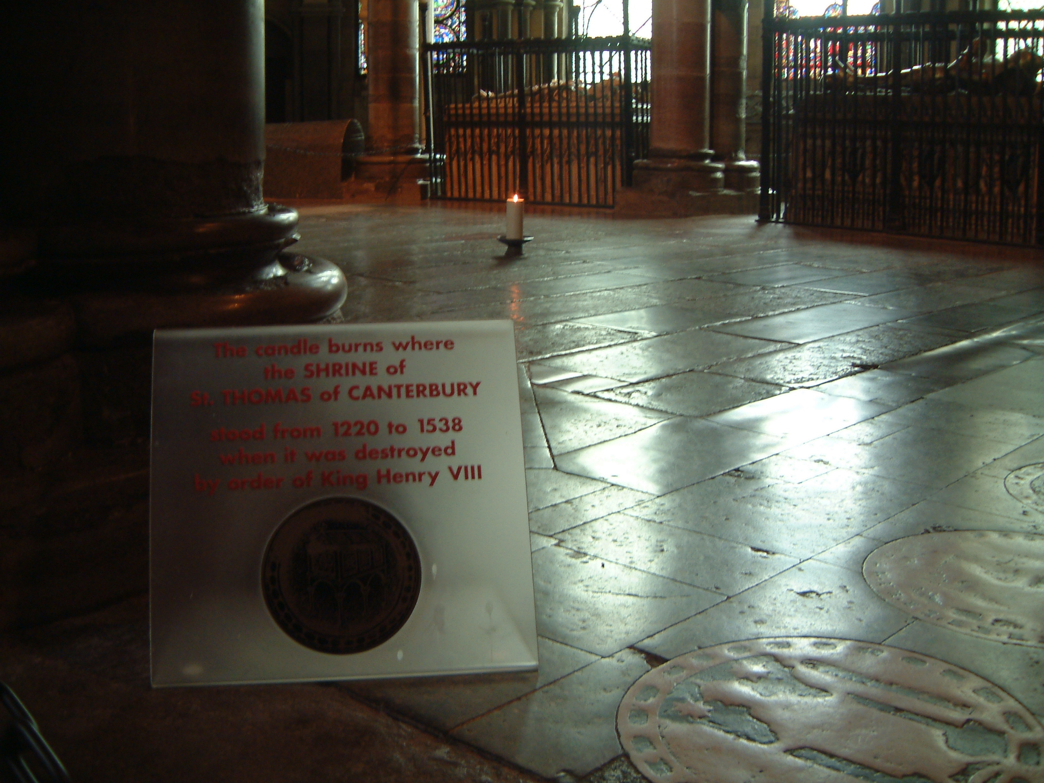 Canterbury - Former place of Thomas Becket's shrine in Canterbury Cathedral